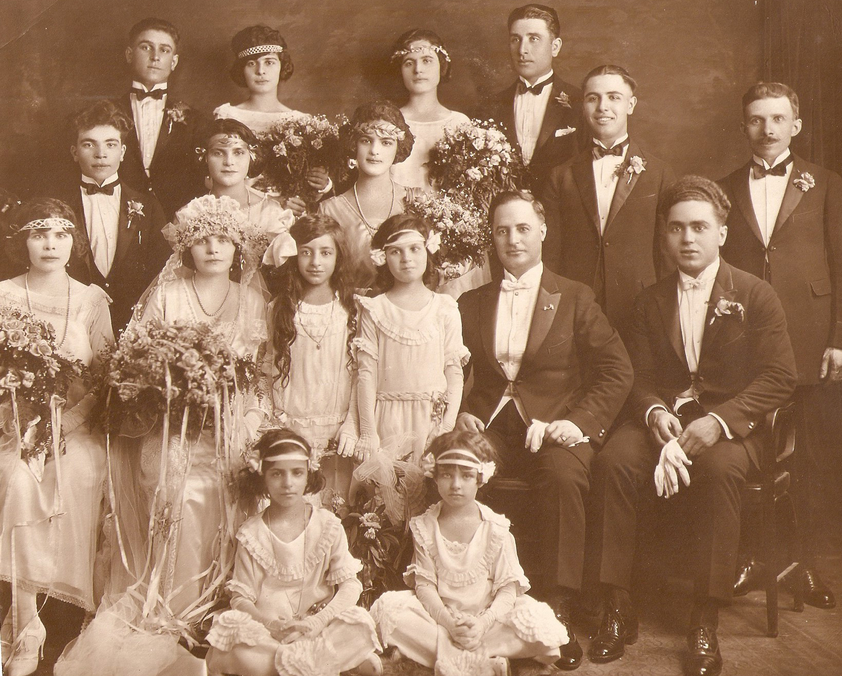 Photo of an early 20s wedding. New York